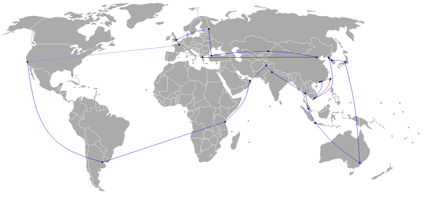 The Beijing 2008 Summer Olympics torch relay international route as unveiled on April 26, 2007. Cancelled leg through Taipei shown in red.